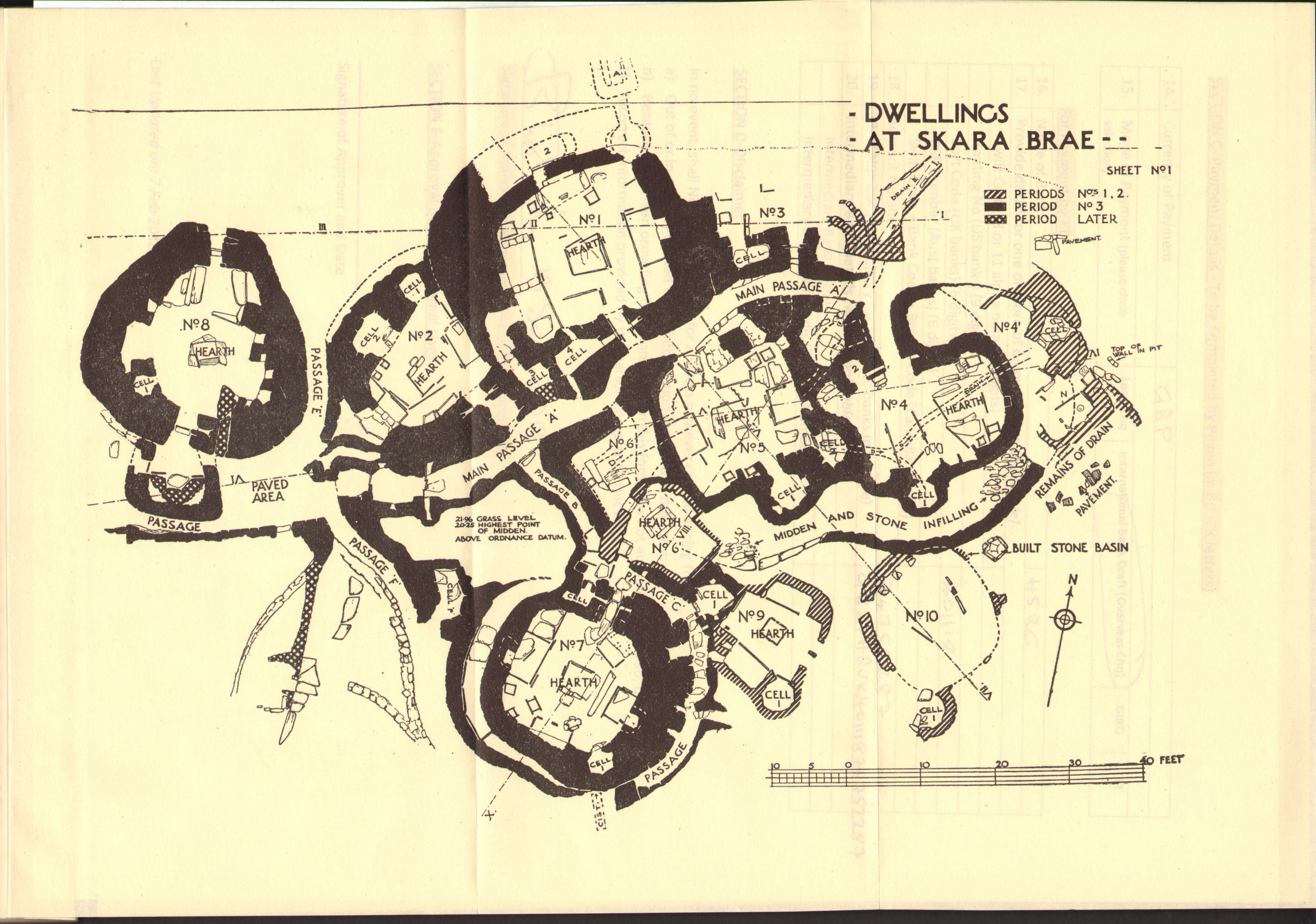 Skara Brae ground plan. From The official guide-book published by HMSO, Full text of the third edition (1950) available at the Internet Archive